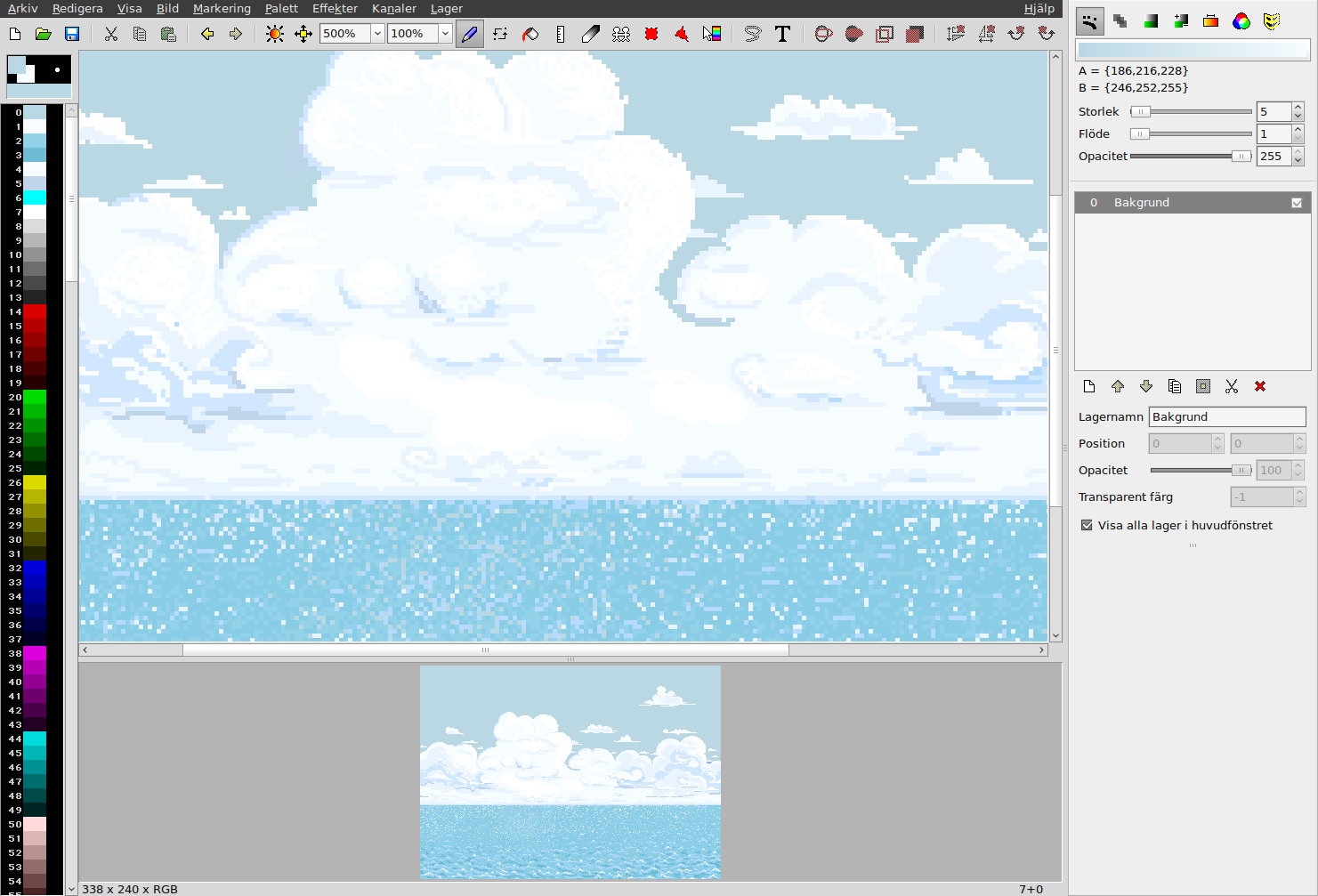 mtPaint v3.40, swedish translation